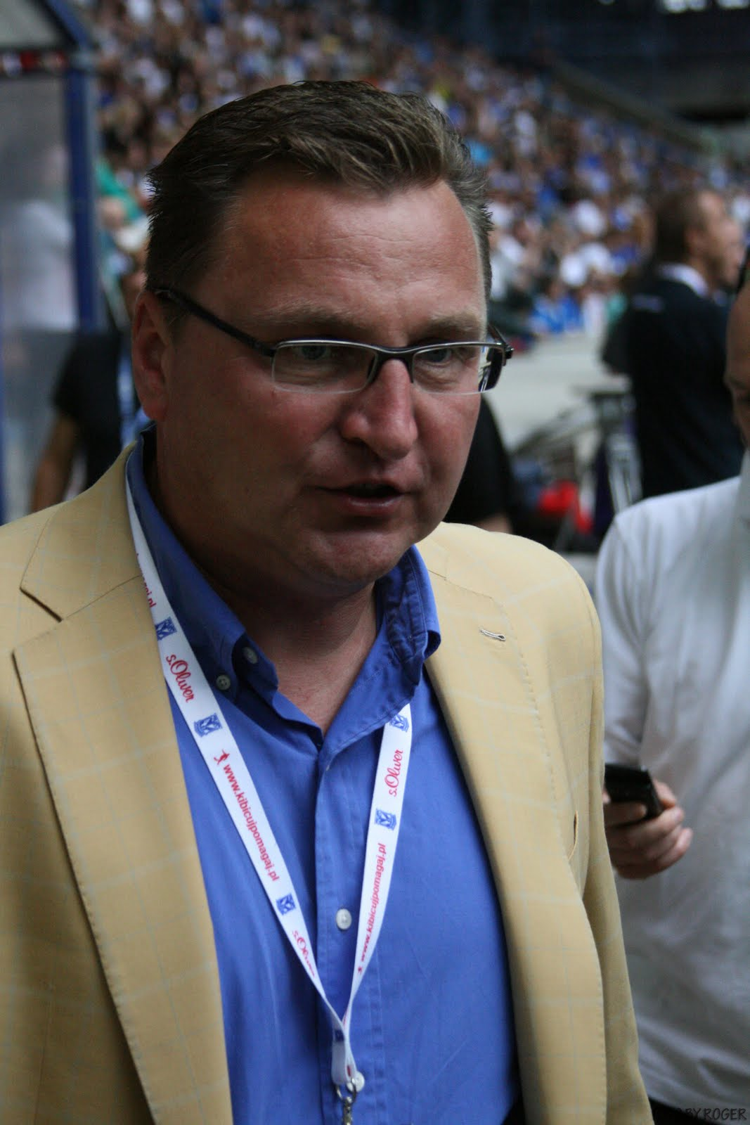 Polish football player and coach - Czesław Michniewicz.